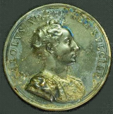 Medal of Charles XII of Sweden (1682-1718)